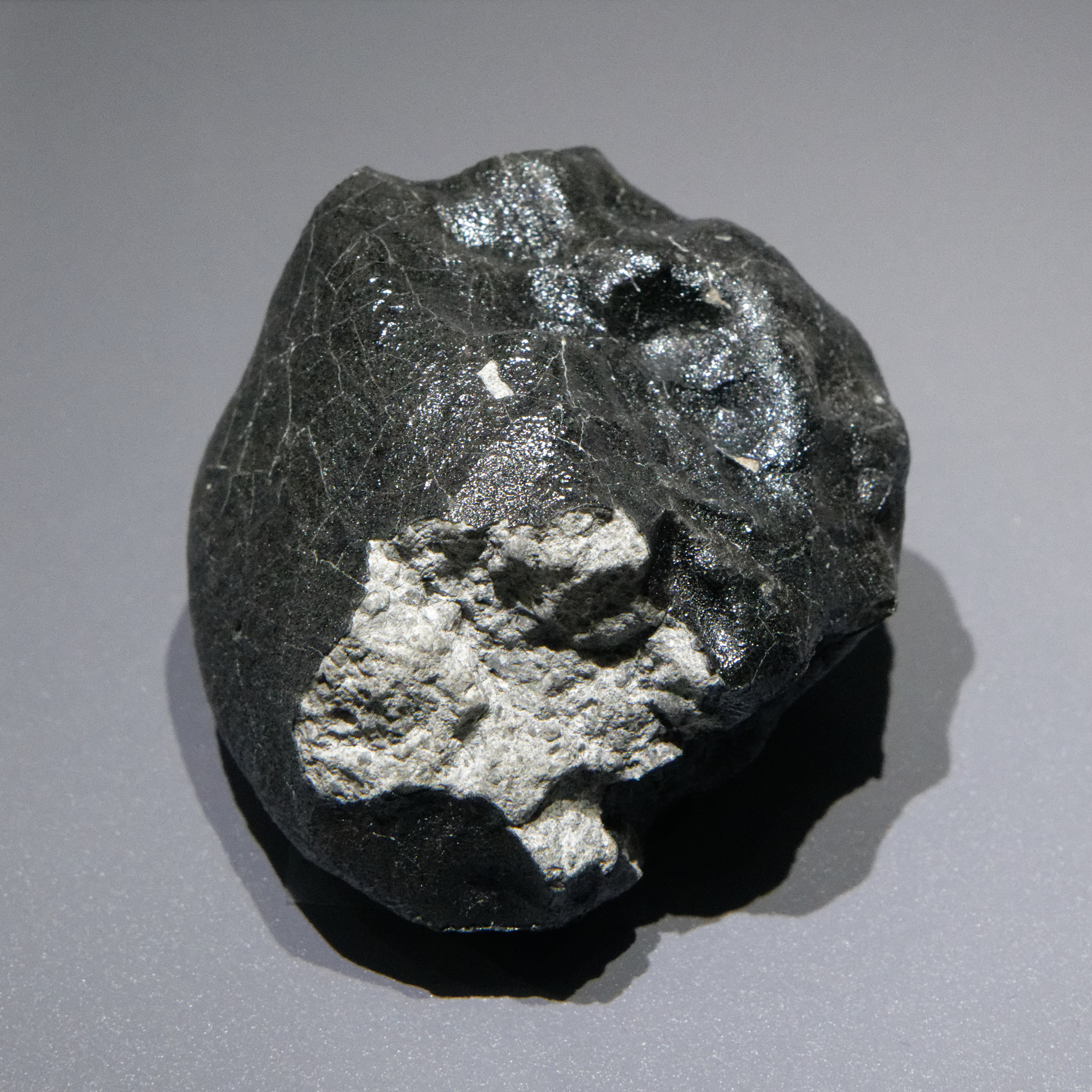 Meteorite from Alby-sur-Chéran, France, fallen in February 2002. Monomict basaltic eucrite, 240 g. Gallery of Mineralogy and Geology of the French National Museum of Natural History in Paris.